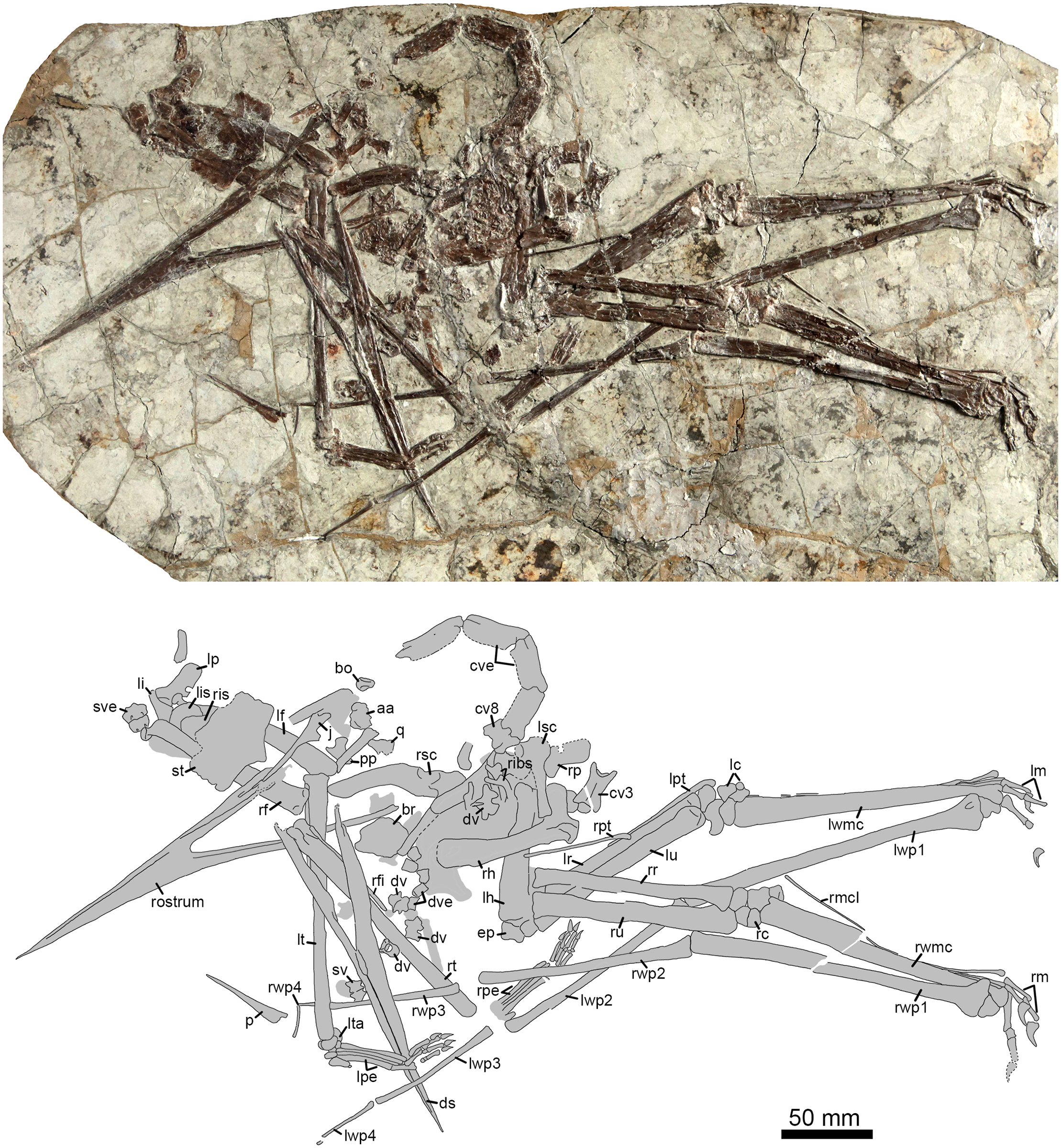 Entire skeleton of Jidapterus edentus (RCPS-030366CY) preserved in a slab mostly in right lateral view. Abbreviations: aa, the atlas-axis complex; bo, basioccipital; br, braincase; cve, cervical vertebrae; cv3, the third cervical vertebra; cv8, the eighth cervical vertebra; ds, dentaries; dv, dorsal vertebra; dve, dorsal vertebrae; ep, epiphysis; j, jugal; lc, left carpus; lf, left femur; li, left ilium; lis, left ischium; lm, left manual digits; lp, left pubis; lpe, left pes; lpt, left pteroid; lr, left radius; lsc, left scapula-coracoid; lt, left tibia; lta, left tarsus; lu, left ulna; lwmc, left wing metacarpal; lwp1–4; left wing phalanges 1–4; p, pterygoid; pp, postacetabular process of the right ilium; q, quadrate; rc, right carpus; rh, right humerus; rf, right femur; rfi, right fibula; ribs, ribs; ris, right ischium; rm, right manual digits; rmcI, right metacarpal I; rp, right pubis; rpe, right pes; rpt, right pteroid; rr, right radius; rsc, right scapula-coracoid; rt, right tibia; ru, right ulna; rwmc, right wing metacarpal; rwp1–4, right wing phalanges 1–4; rostrum, rostrum; st, sternum; sv, sacral vertebra; sve, sacral vertebrae. Gray shaded areas bound by solid lines indicate preserved bones, dashed lines indicate bones with margins discerned by impression, and lack of lines indicate missing bone or displacement along cracks in the slab.